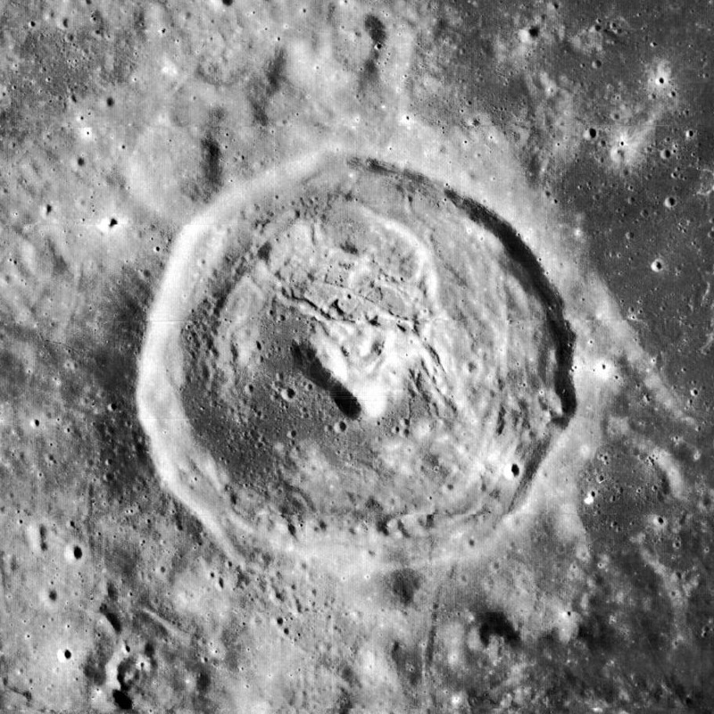 Schubert C crater, southeast of Schubert crater, Mare Smythii, on the moon.